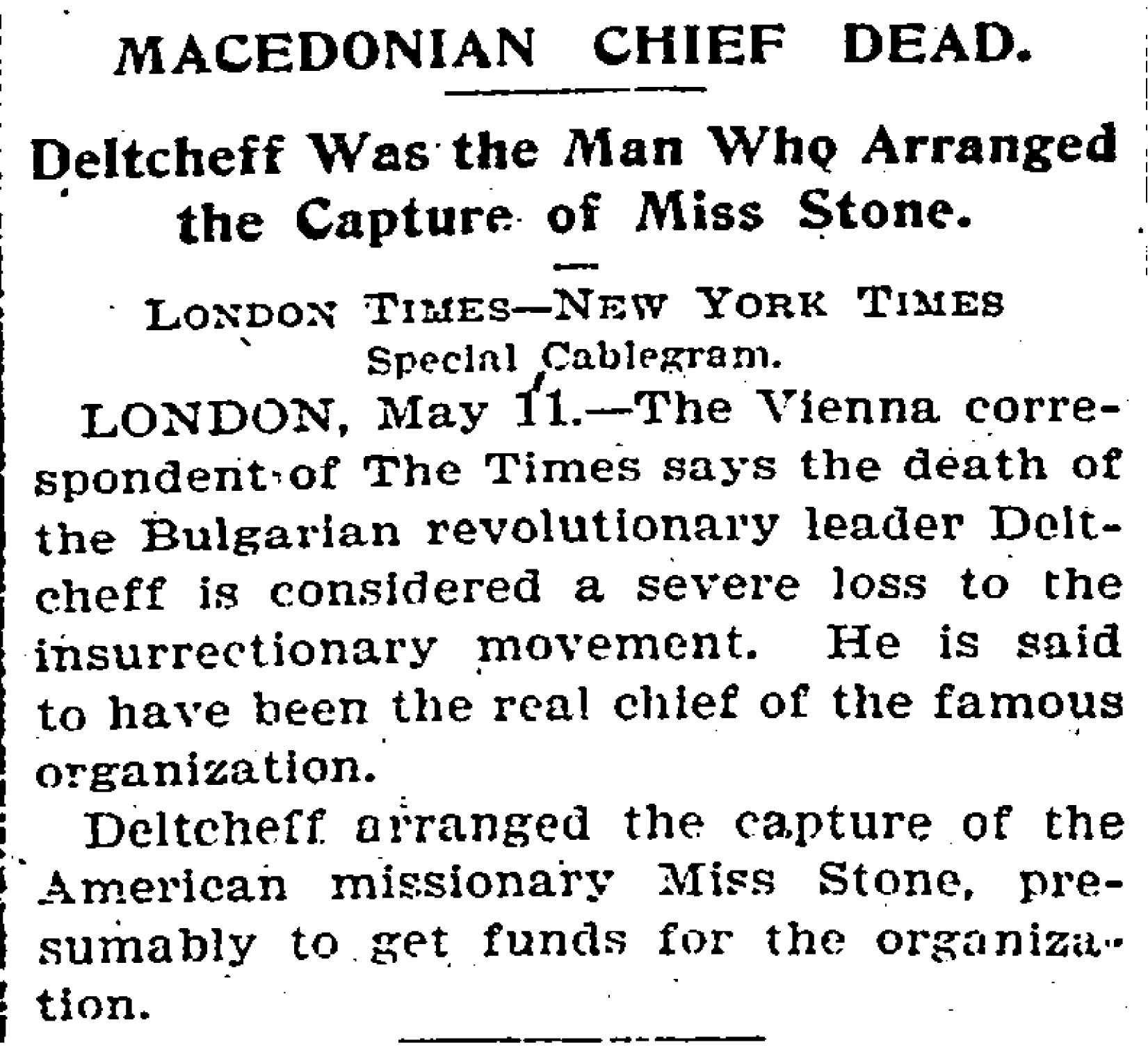 The American daily New York Times from May, 11, 1903 describing the Bulgarian revolutionary Delchev as leader of the rebels in Macedonia.